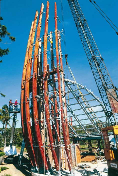 Case under construction at the Jean-Marie Tjibaou Cultural Centre